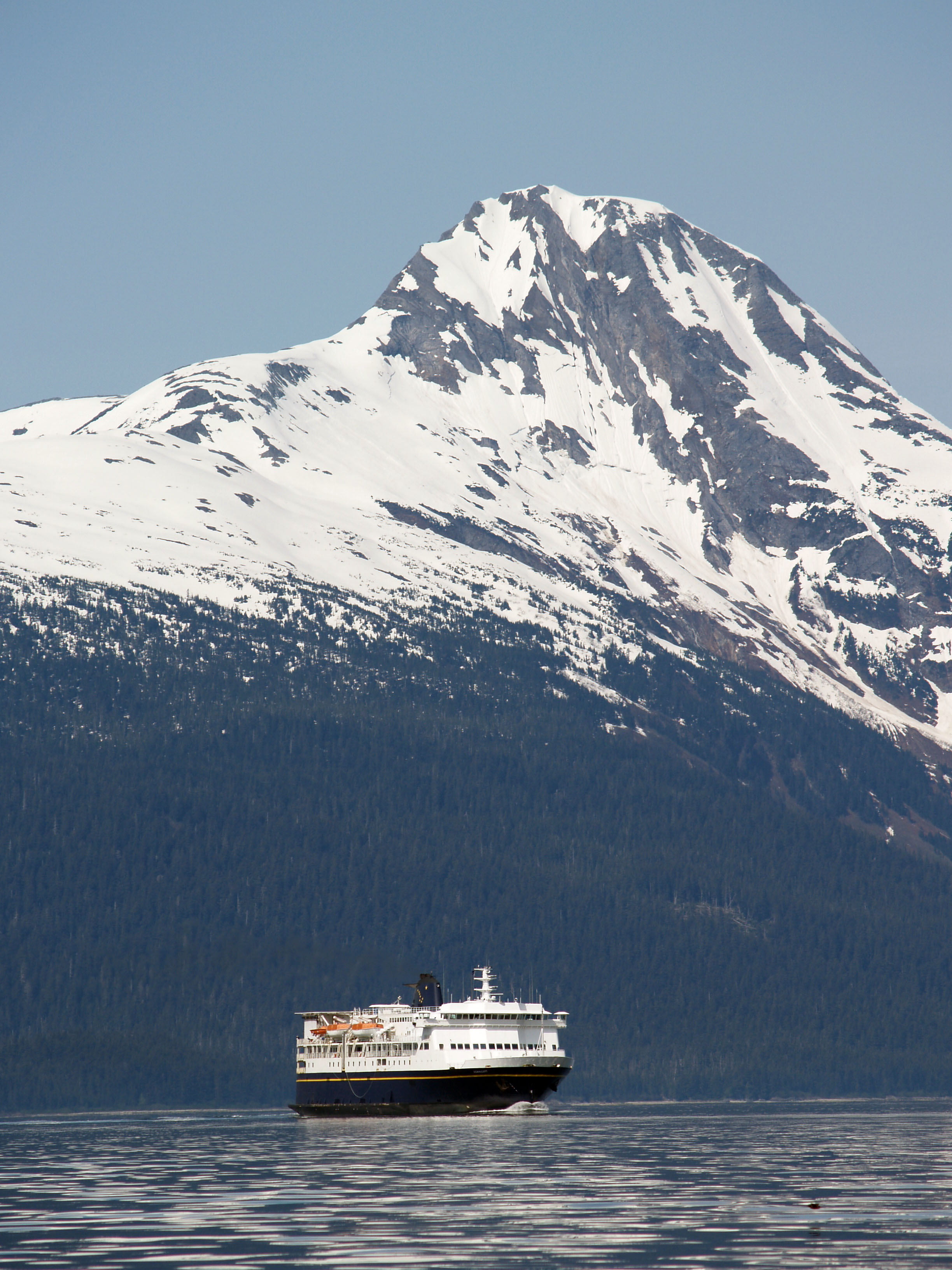 The Alaska State ferry m/v Kennicott coming around Point Retreat with Mount Golub 4194ft of the Chilkat Mount Range, Southeast Alaska.